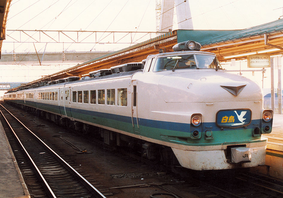 JR East 485 series EMU on a "Hakucho" limited express service at Aomori Station